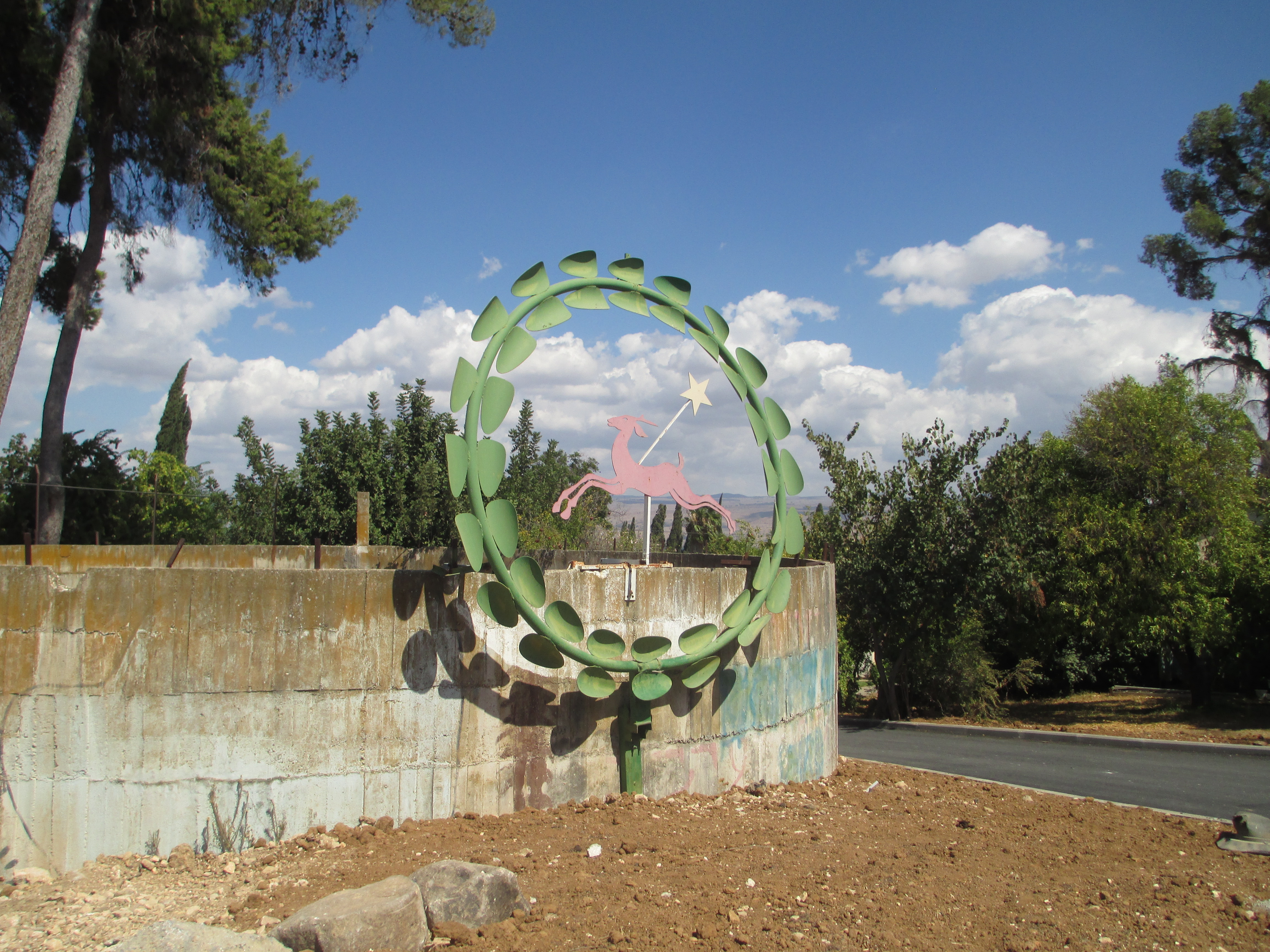 Sculpture in Kibbutz Ayelet Hashahar